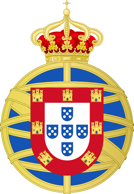 Coat of Arms of the United Kingdom of Portugal, Brazil and the Algarves (1815-1822)